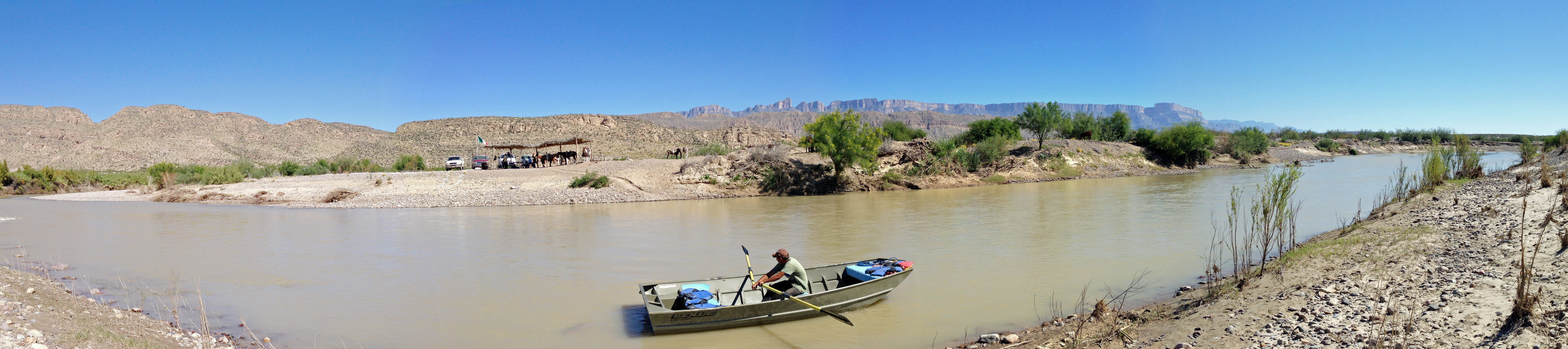 The Rio Grande at the Boquillas Port of Entry in Big Bend National Park, Texas looking to Mexico from the United States.